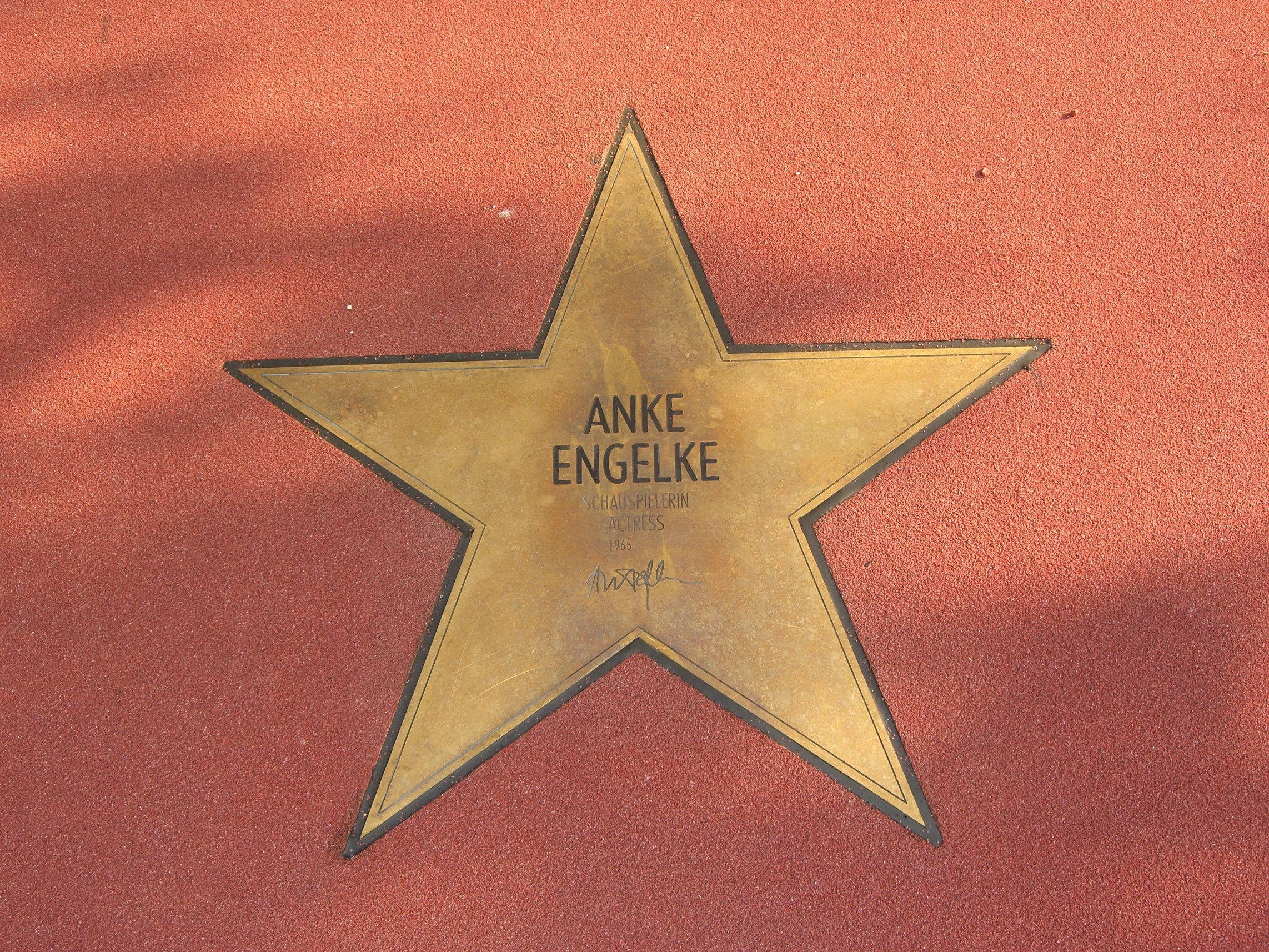 Star of Anke Engelke at "Boulevard der Stars" in Berlin.